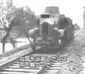 1944_Operation_Ichigo_IJA_armor_rail-car